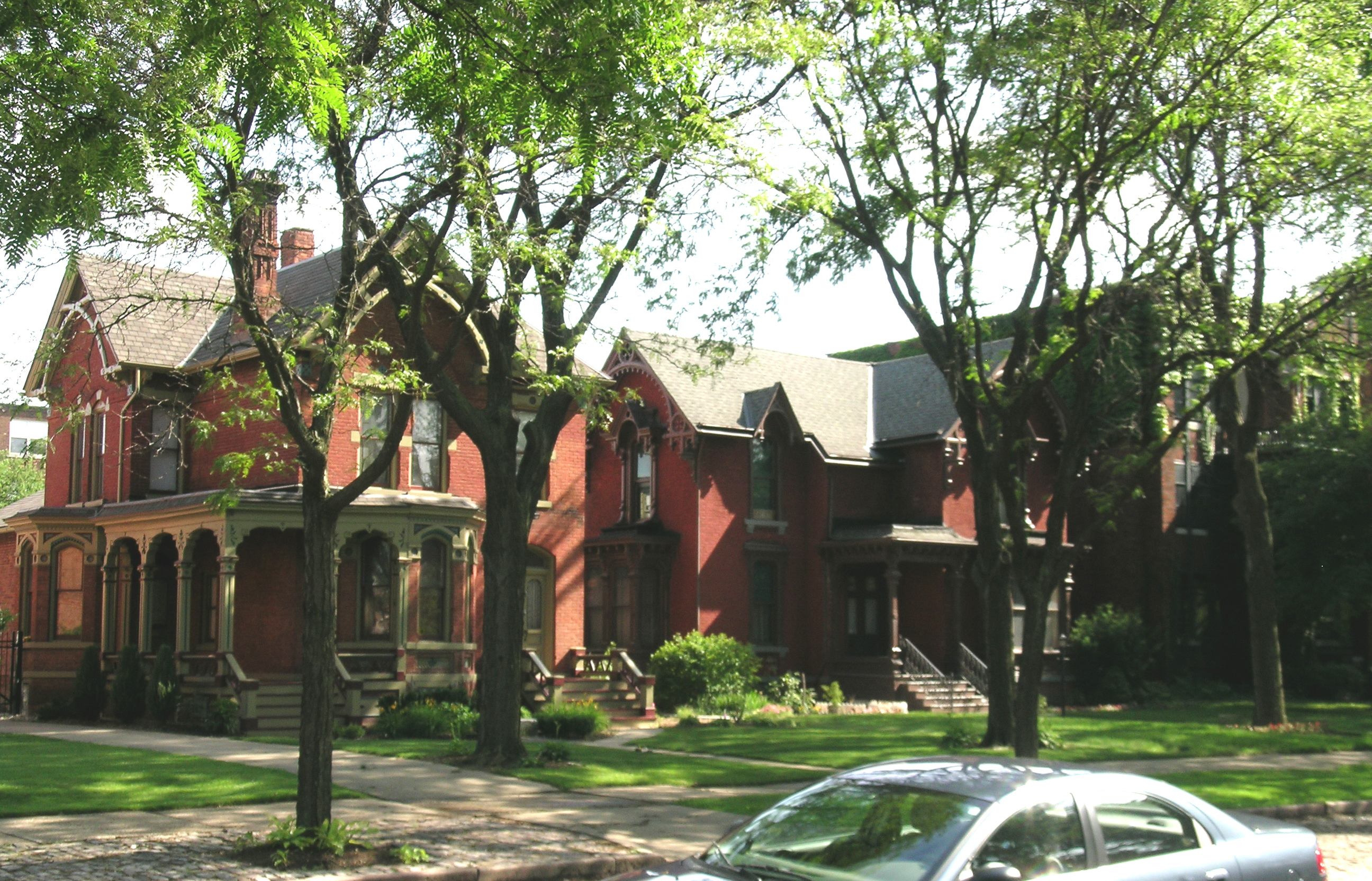 The West Canfield Historic District contributing properties, along West Canfield Avenue in Detroit, Michigan. Listed on the US National Register of Historic Places (NRHP reference numbers 71000433, 97001092)